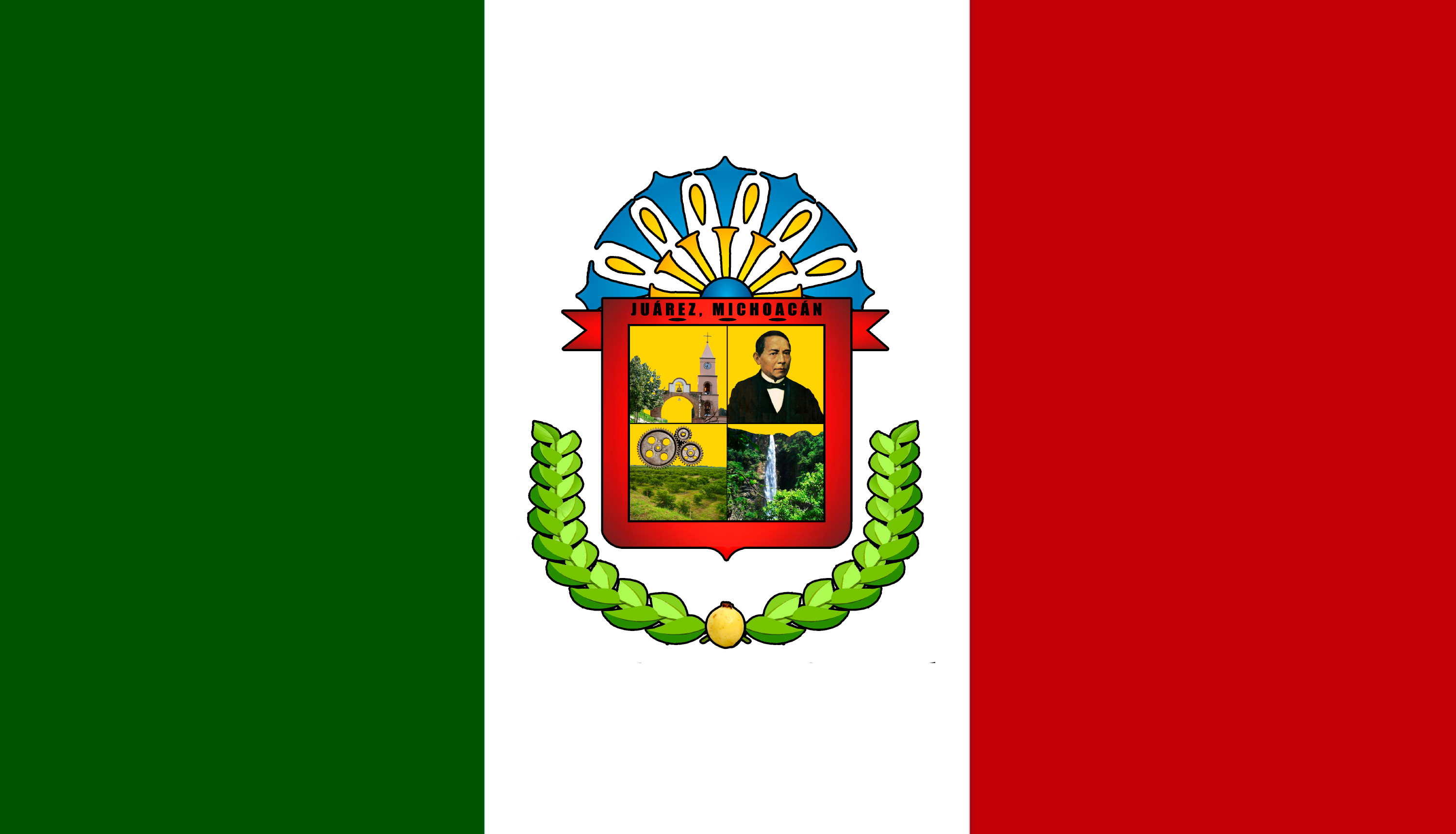 Flag of Juarez Mich